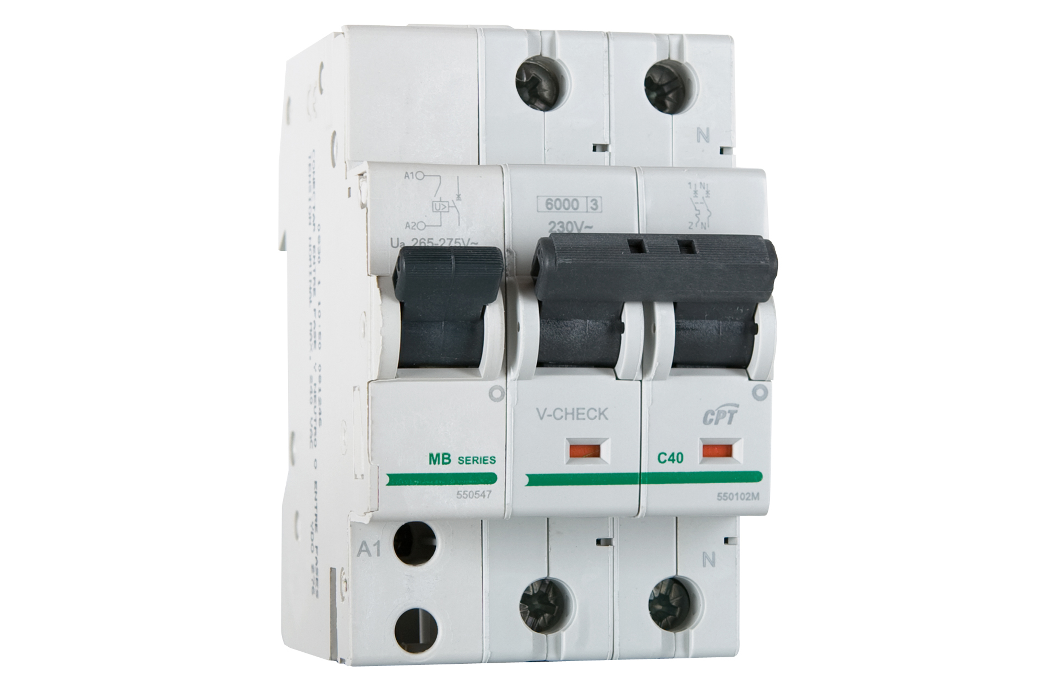 Standby 40-Amp circuit breaker with C-characteristics for main AC voltage regulator with relay.